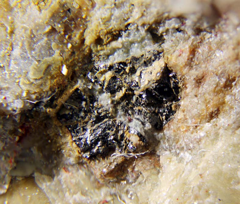 Black crystals of the very rare mercury mineral hypercinnabar. Hypercinnabar has only been found in 6 localities worldwide. Analyzed specimen. From: Clear Creek, San Benito County, California, United States of America.